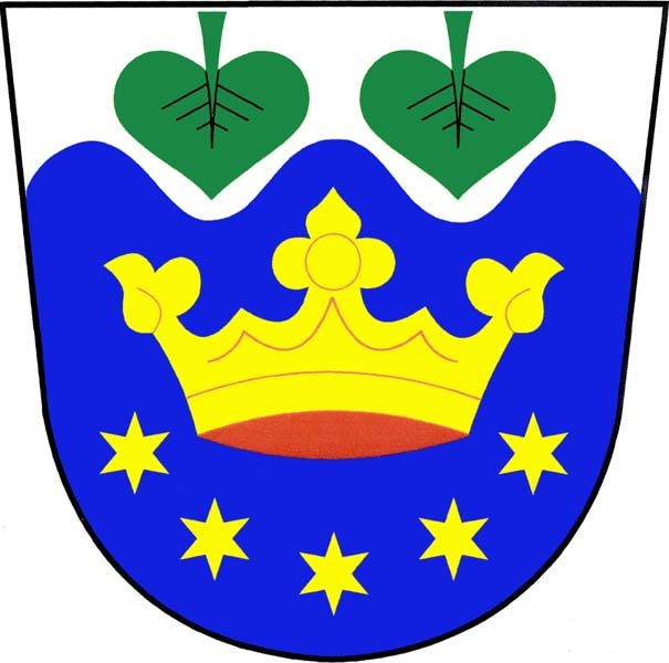 Municipal coat of arms of Pertoltice village, Liberec District, Czech Republic.